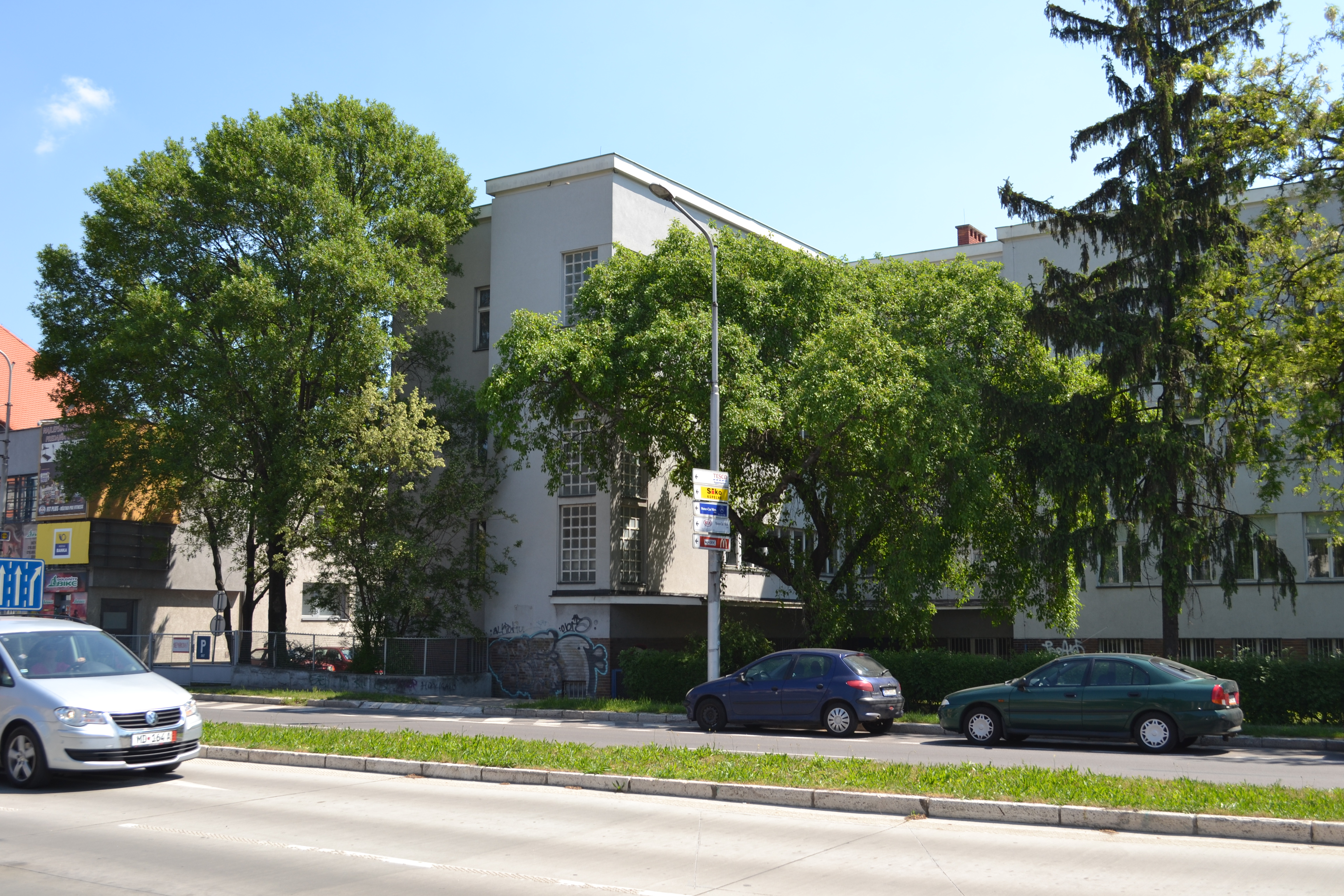 Memorial building, Štefánik tr. 67, NitraSlovenčina: Pamätná budova, Štefánikova tr. 67, Nitra